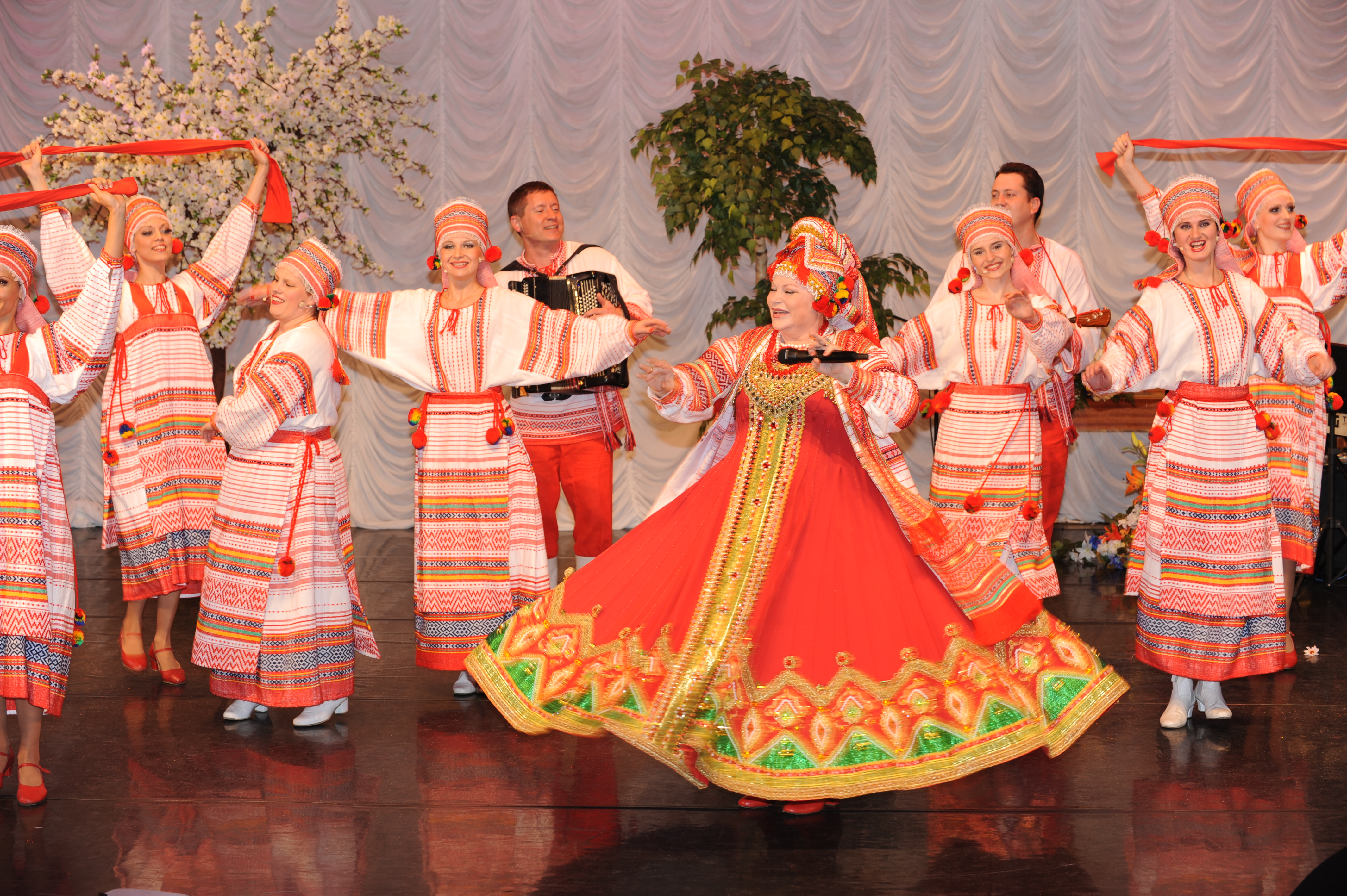 Ludmila Rumina on scene